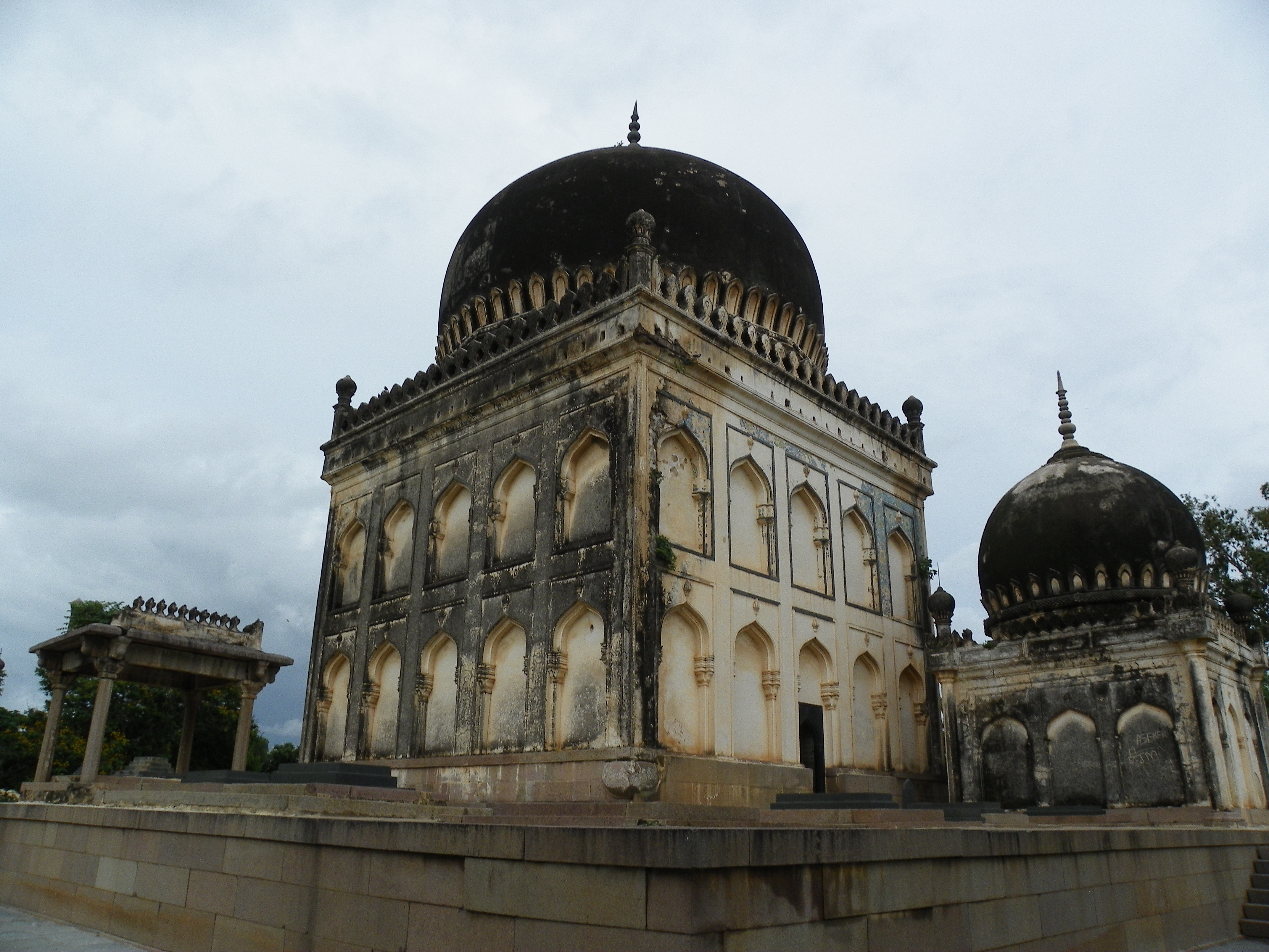 Perspective view of the tomb of Ibrahim Quli Qutub Shah, the 3rd Sultan, flanked by the tombs of his short-lived son, Mohammed Ameen.